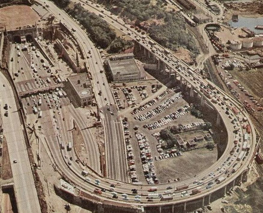 Lincoln Tunnel, New Jersey side approach and "Helix", circa 1955.